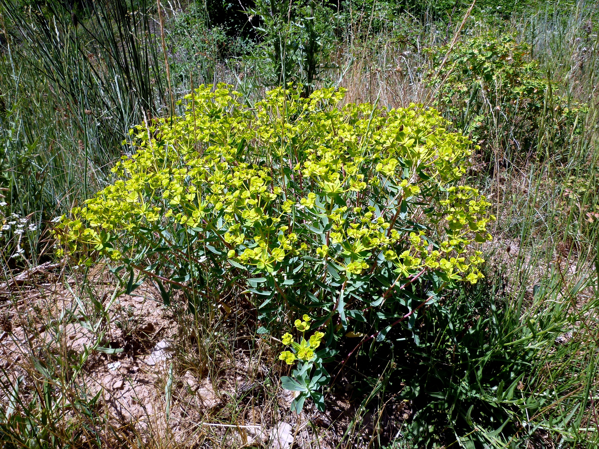 Euphorbia nicaeensis. In Torà (Segarra- Catalunya). On 570 m. altitude